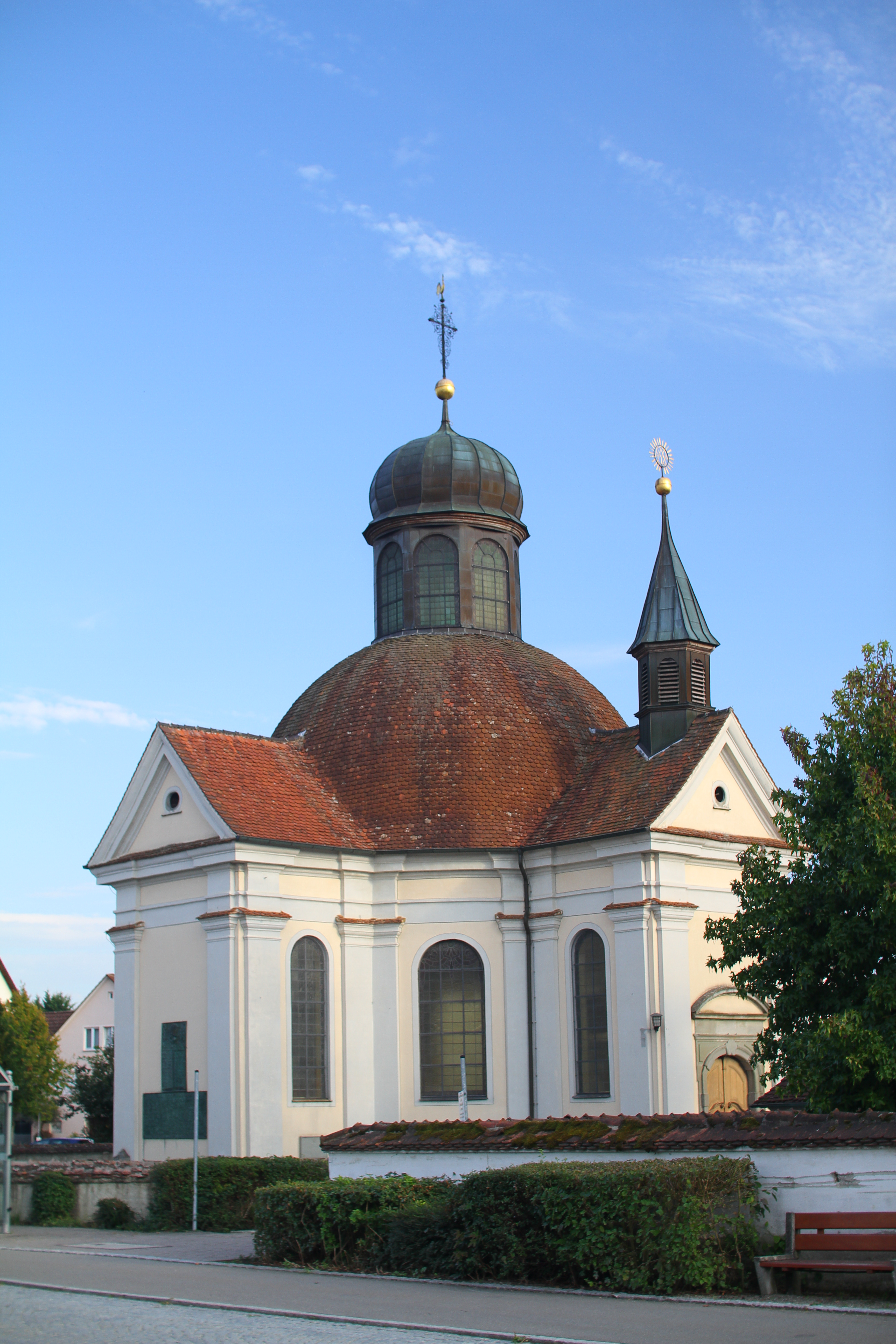 Stefansfeld-Kapelle in Stefansfeld nearby Salem at Lake Constance in the german District Baden-Württemberg